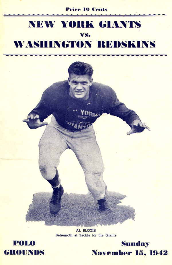 source: New York Giants, from the private collection of Michael Moran